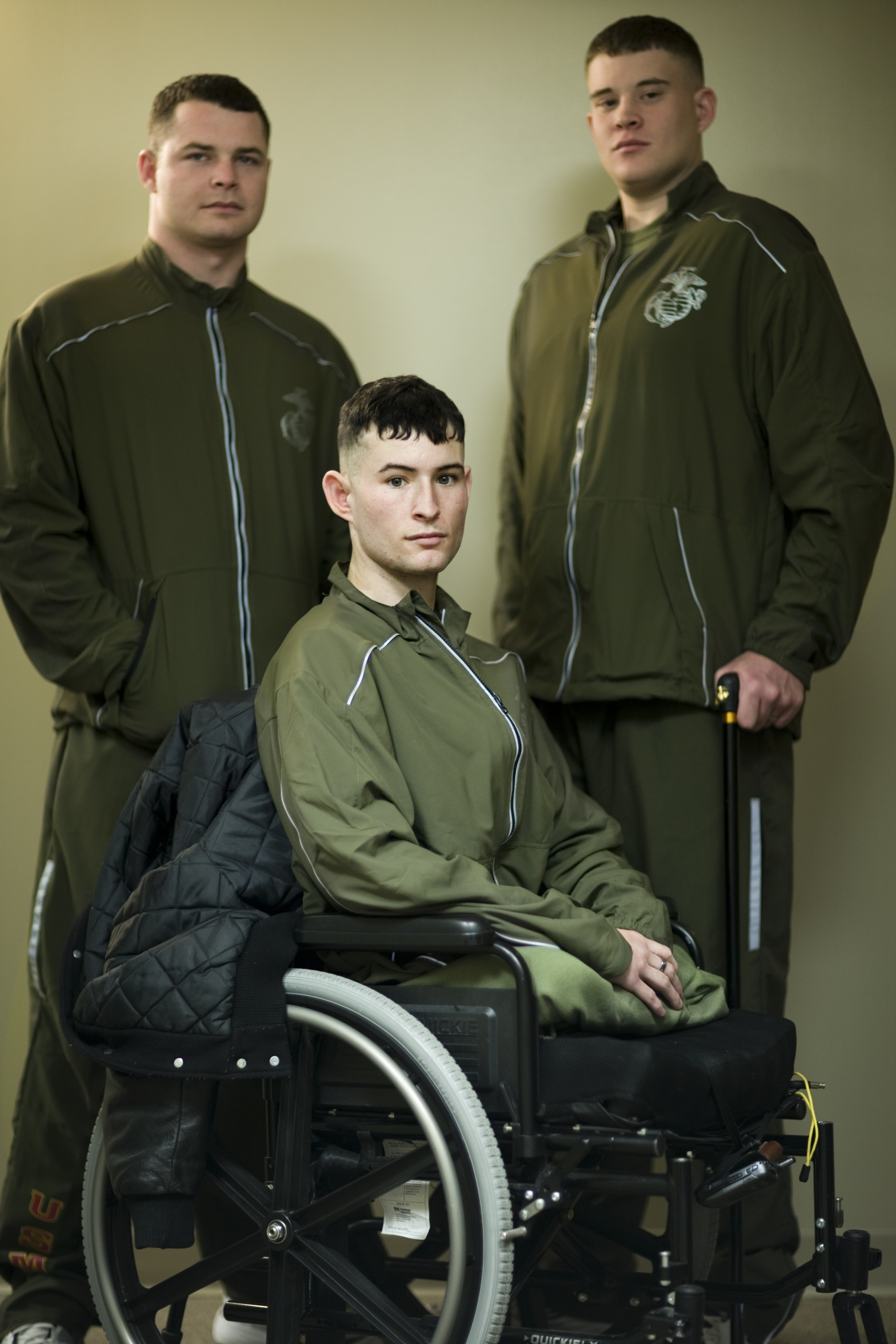 Marines from the Wounded Warrior Regiment model the new USMC physical training uniform, a running suit.